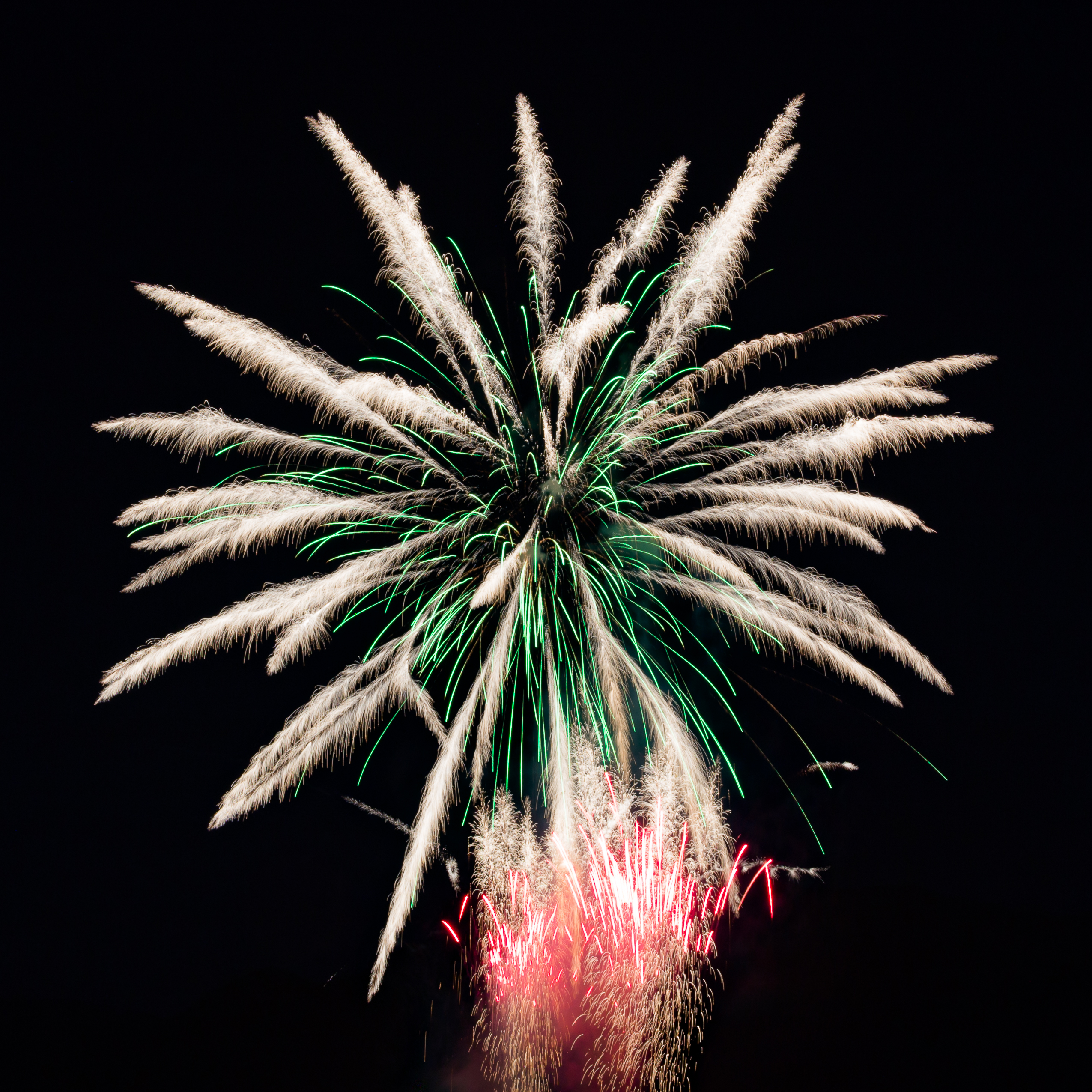 Fireworks in Annecy, France.